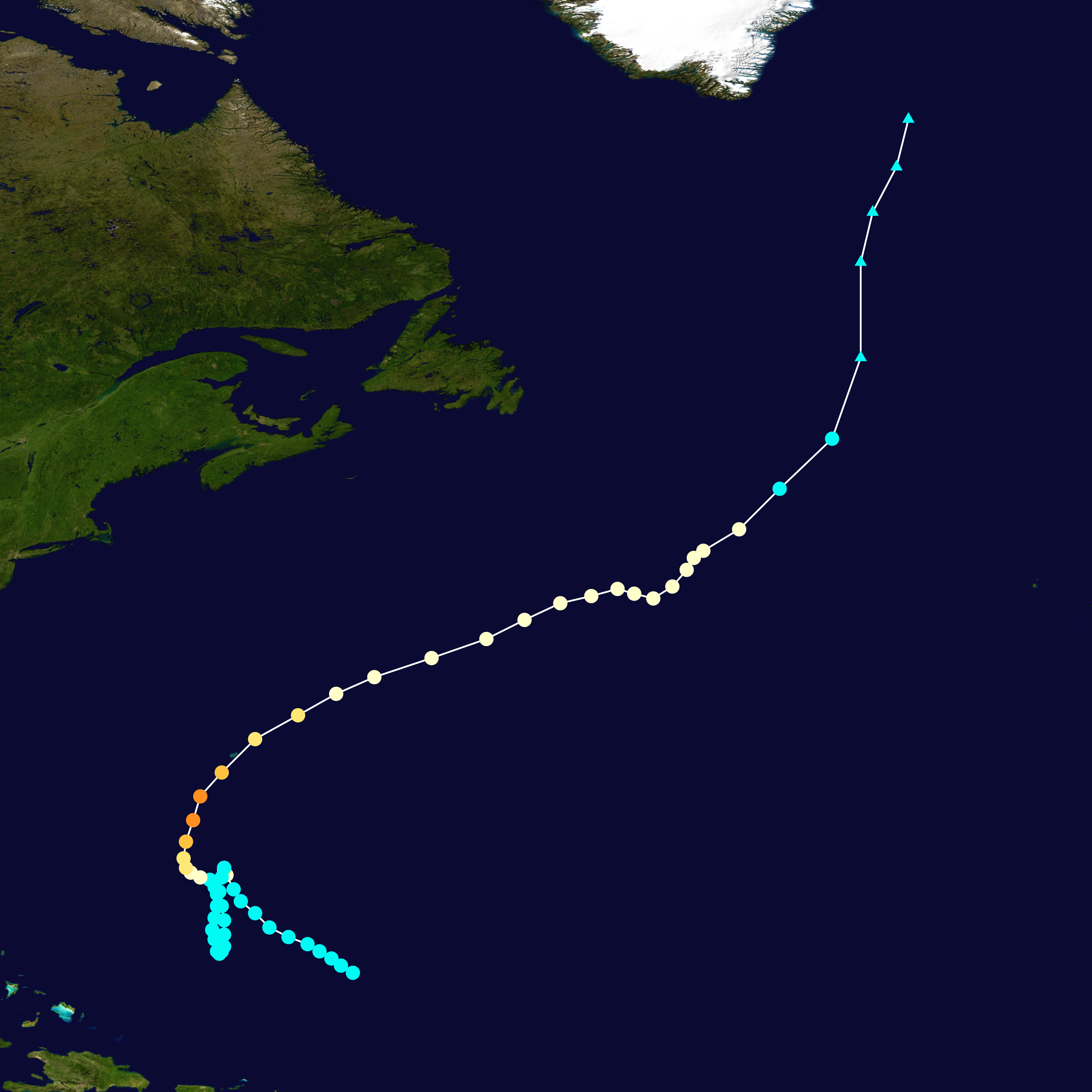 Track map of Hurricane Nicole of the 2016 Atlantic hurricane season. The points show the location of the storm at 6-hour intervals. The colour represents the storm's maximum sustained wind speeds as classified in the Saffir–Simpson scale (see below), and the shape of the data points represent the nature of the storm, according to the legend below. Saffir–Simpson scale Tropical depression≤38 mph≤62 km/h Category 3111–129 mph178–208 km/h Tropical storm39–73 mph63–118 km/h Category 4130–156 mph209–251 km/h Category 174–95 mph119–153 km/h Category 5≥157 mph≥252 km/h Category 296–110 mph154–177 km/h Unknown Storm type Tropical cyclone Subtropical cyclone Extratropical cyclone / Remnant low / Tropical disturbance / Monsoon depression